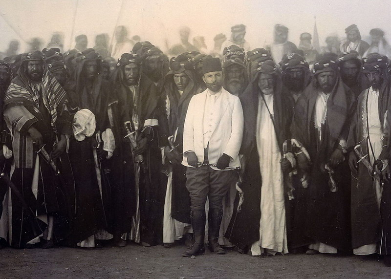 Original photograph by German photographer of Jemal Pasha, then the public works minister in the Ottoman Empire, at the celebrations of the completion of al-Hindya dam on the Euphrates near al-Hilla, south of Baghdad. Jemal Pahsa is seen in his white jacket and his riding outfit, surrounded by the tribal leaders of the regions of south of Baghdad. The sophisticated western attire of Jemal Pasha sharply contrasted with the traditional costumes of the fierce-looking traditional local tribal leaders. Jemal Pasha was then to server as minister of the Navy, the governor of Syria, Lebanon, and Palestine, and led the military campaigns along the Suez Canal against the British and their allies. He was known to the Arabs by Jemal al-Saffah, Jemal the Butcher, for the number of nationalist Arab leaders executed by him (hanging) in both Beirut and Damascus. The two martyrs’ squares of Beirut and Damascus were named after his victims. After WWI, he briefly fought the British in Afghanistan. He was later gunned down by the Armenians in retaliation for the Armenian massacre perpetuated by the triumvirate of the young turks consisting of Jemal Pasha, Enver Pasha and Talaat Pasha.